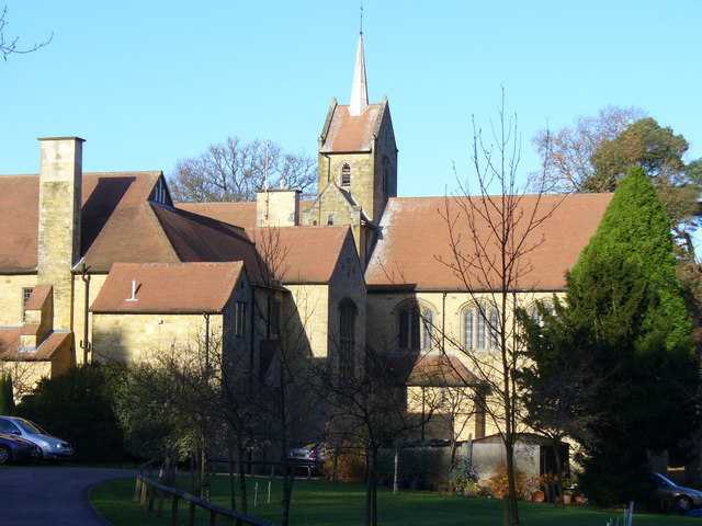 Greyfriars Monastery Franciscan monastery in woodland setting, on the northern fringes of Blackheath.